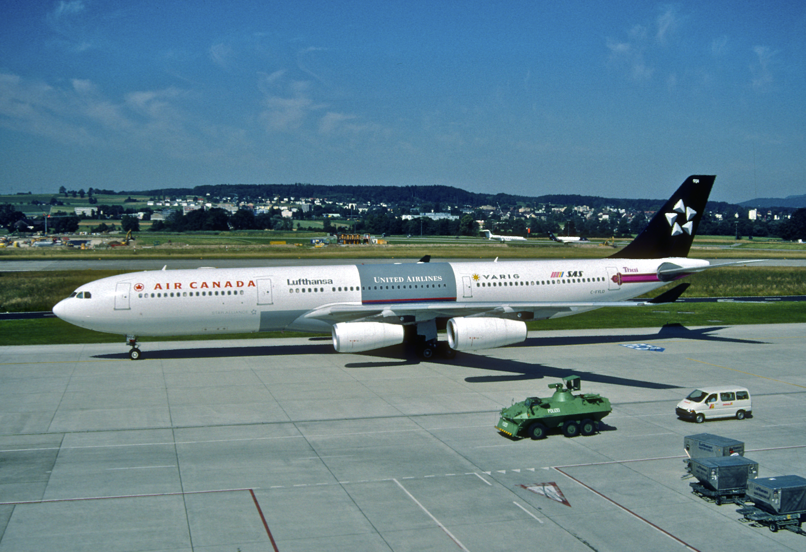 First flight: April 4, 1997...(c/n 170) 29/04/1997 Air Canada C-FYLD returned to lessor in January 2008 05/06/2008 Iberia EC-KSE named Clara Campoamor